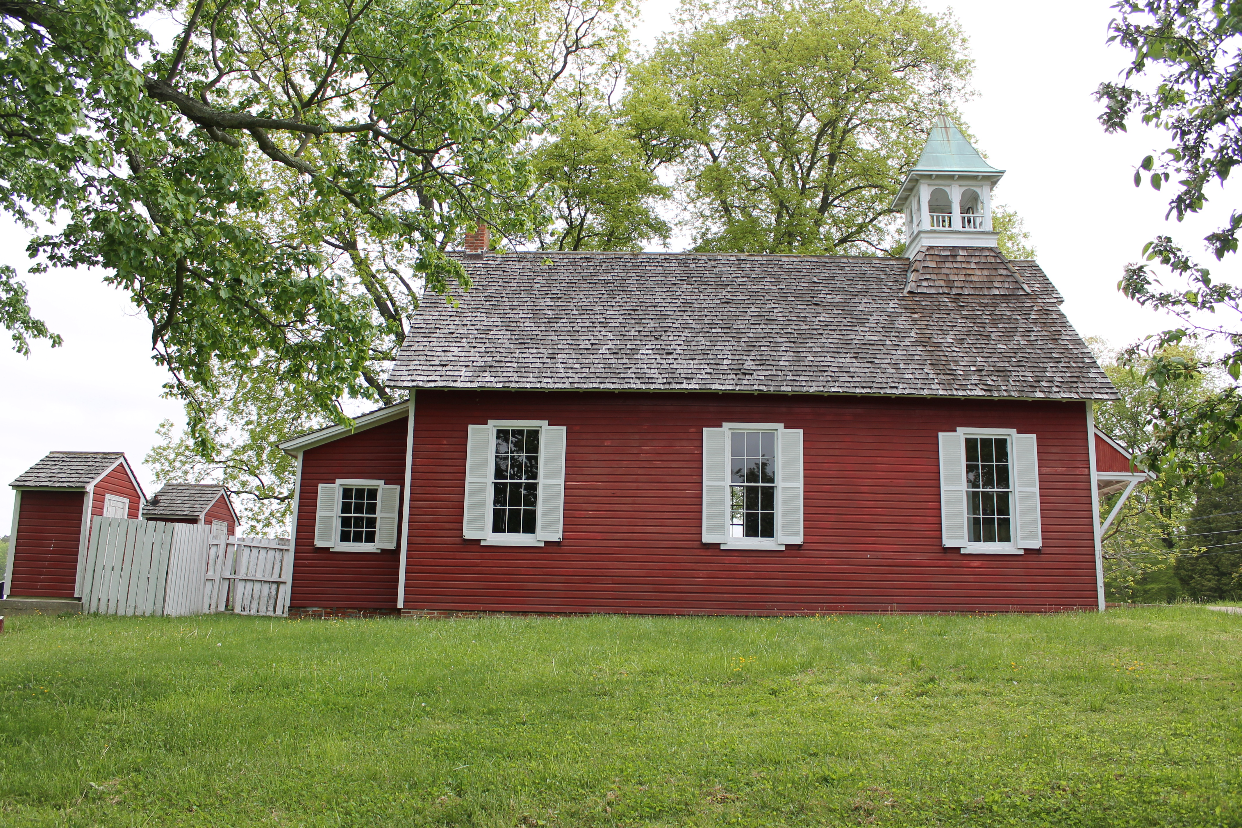 Side view of Longwoods School House in Talbot County, Maryland.